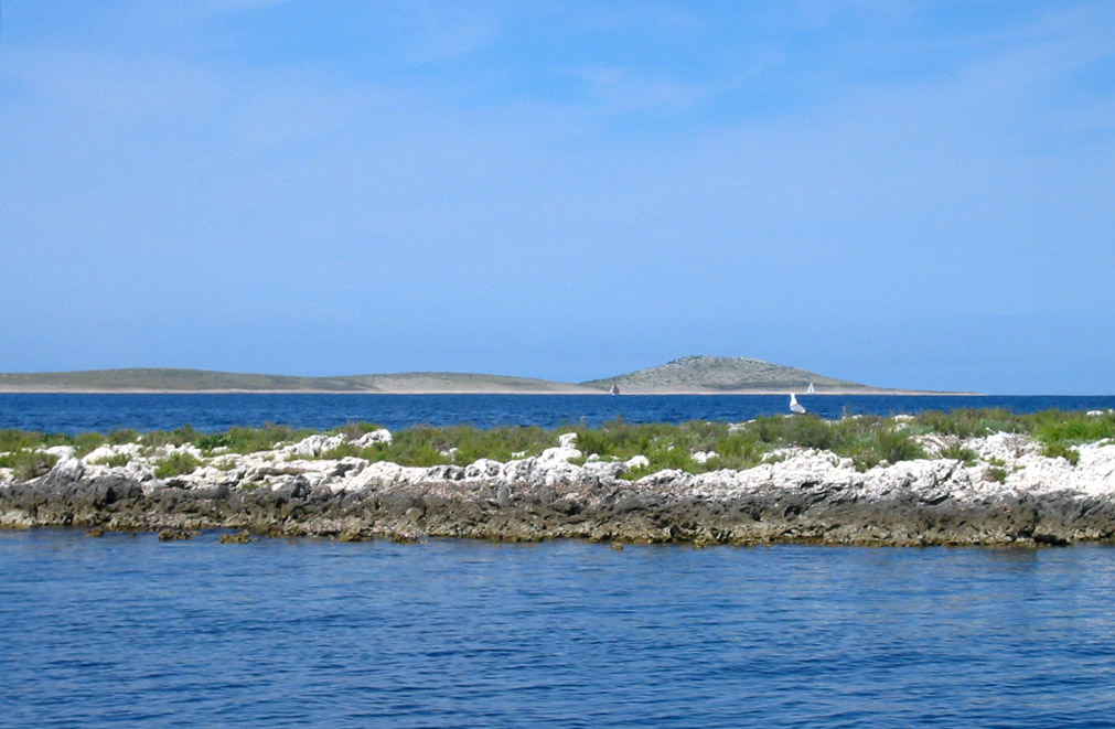 Srakane, 2 islands in Croatia, view from Lošinj photo:Ziga 12:04, 16 April 2007 (UTC)